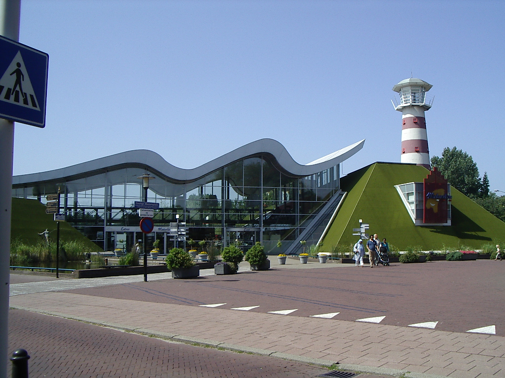 Madurodam in The Netherlands